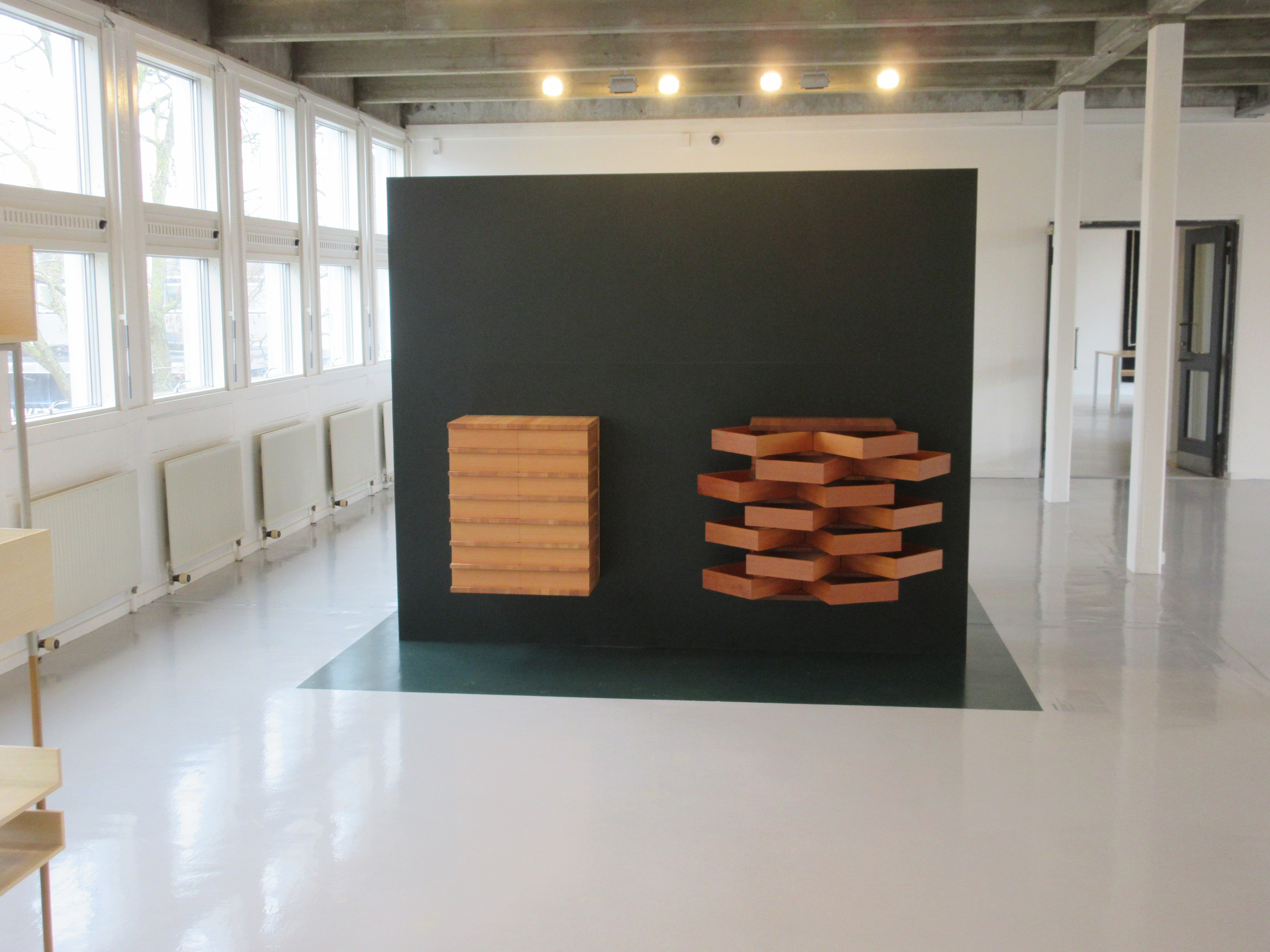 Fgerill by Jakob Kørgensen at A. Petersen exhibition in 2018.